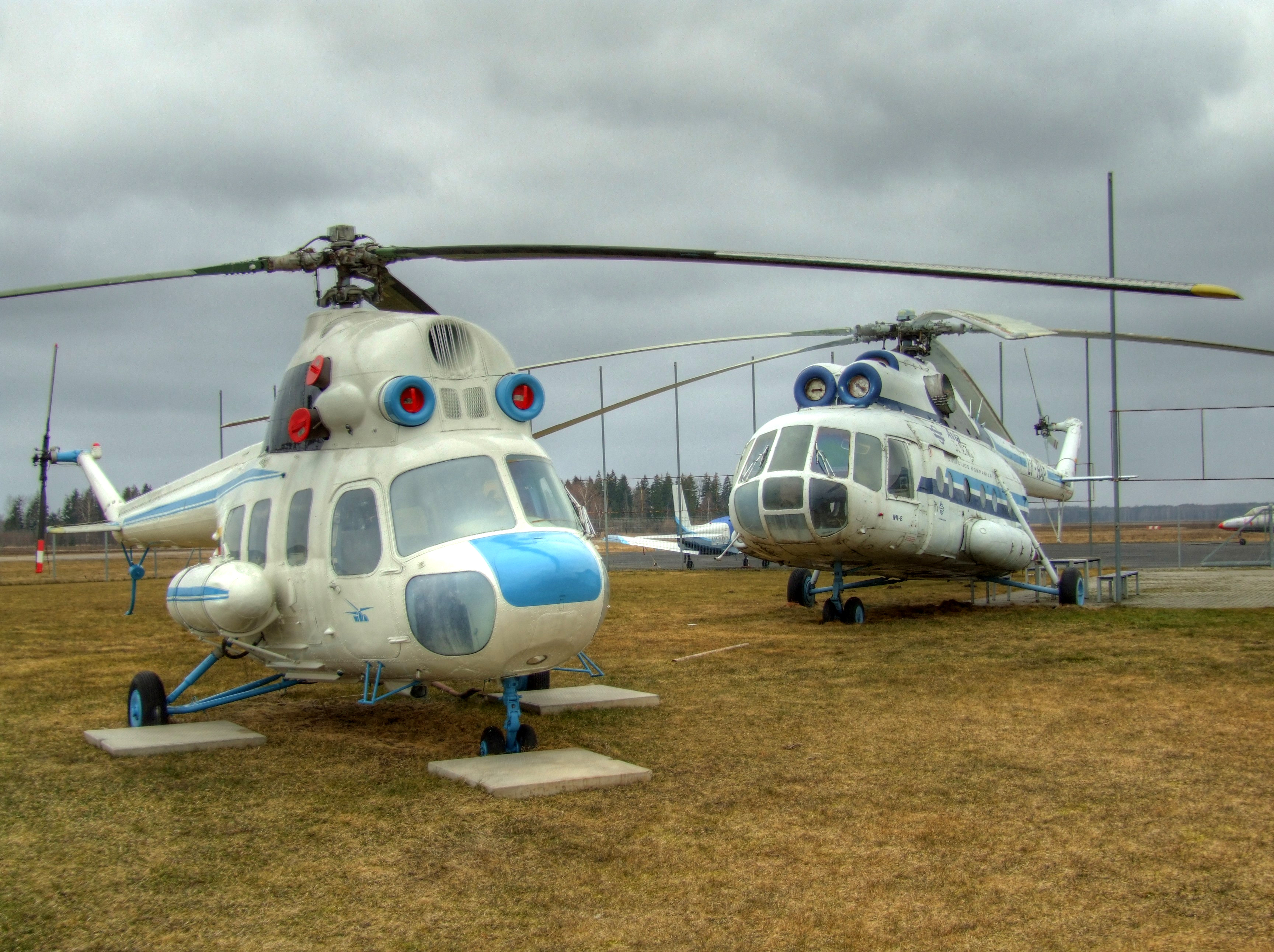 Airport Motel